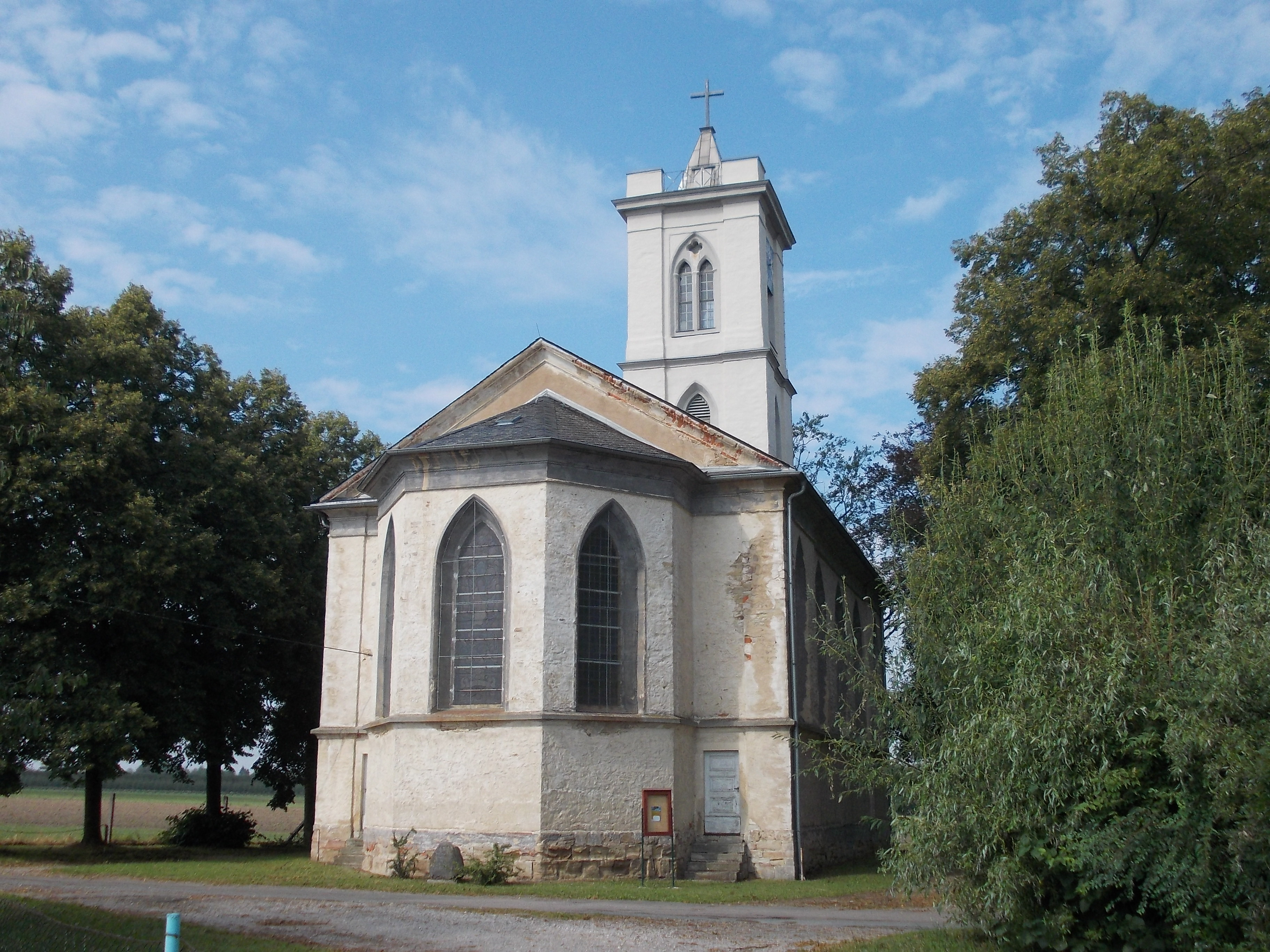 Lumpzig church (district of Altenburger Land, Thuringia)